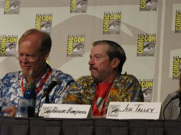 American voice actors Bill Fagerbakke and Rodger Bumpass sitting on the SpongeBob SquarePants panel at the 2009 San Diego Comic-Con